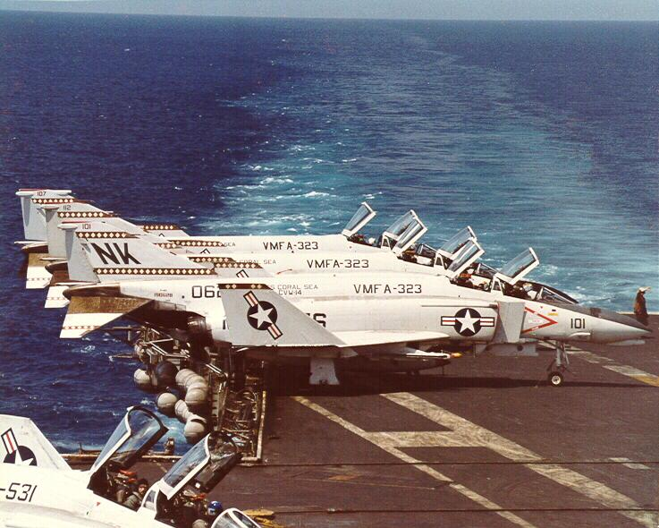 Three McDonnell Douglas F-4N Phantom II (BuNo 150628, 152318, 151446) of Marine Fighter Attack Squadron 323 (VMFA-323) "Death Rattlers" aboard the U.S. Navy aircraft carrier USS Coral Sea (CV-43) in 1979-80. VMFA-323 was assigned to Carrier Air Wing 14 (CVW-14) aboard the Coral Sea for a deployment to the Western Pacific and the Indian Ocean from 13 November 1979 to 11 June 1980.